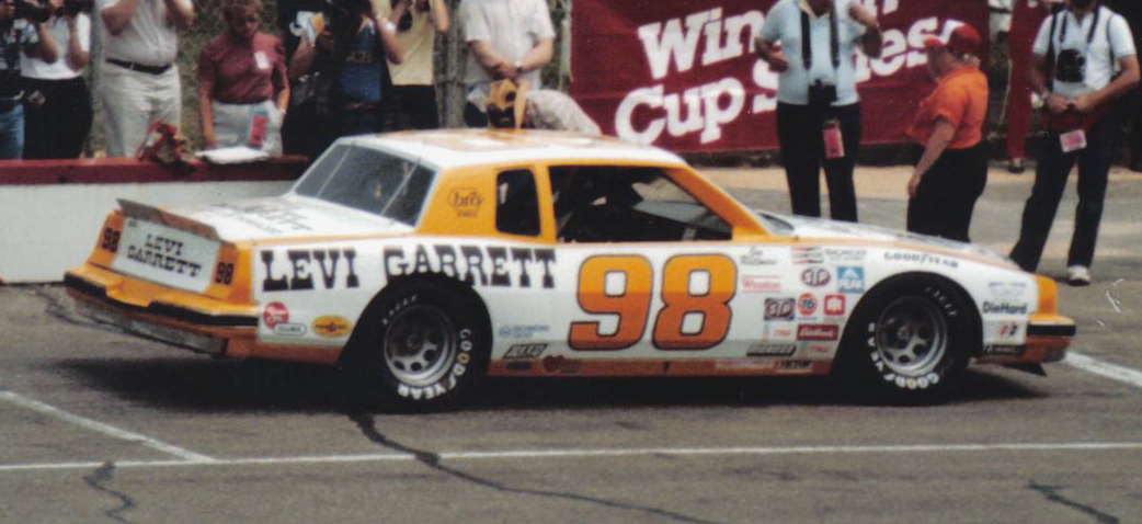 The Ron Benfield Levi Garrett Pontiac of Joe Ruttman finished 10th in the 1983 Van Scoy 500.